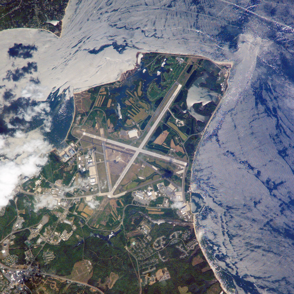 Naval Air Station Patuxent River, Maryland, United States